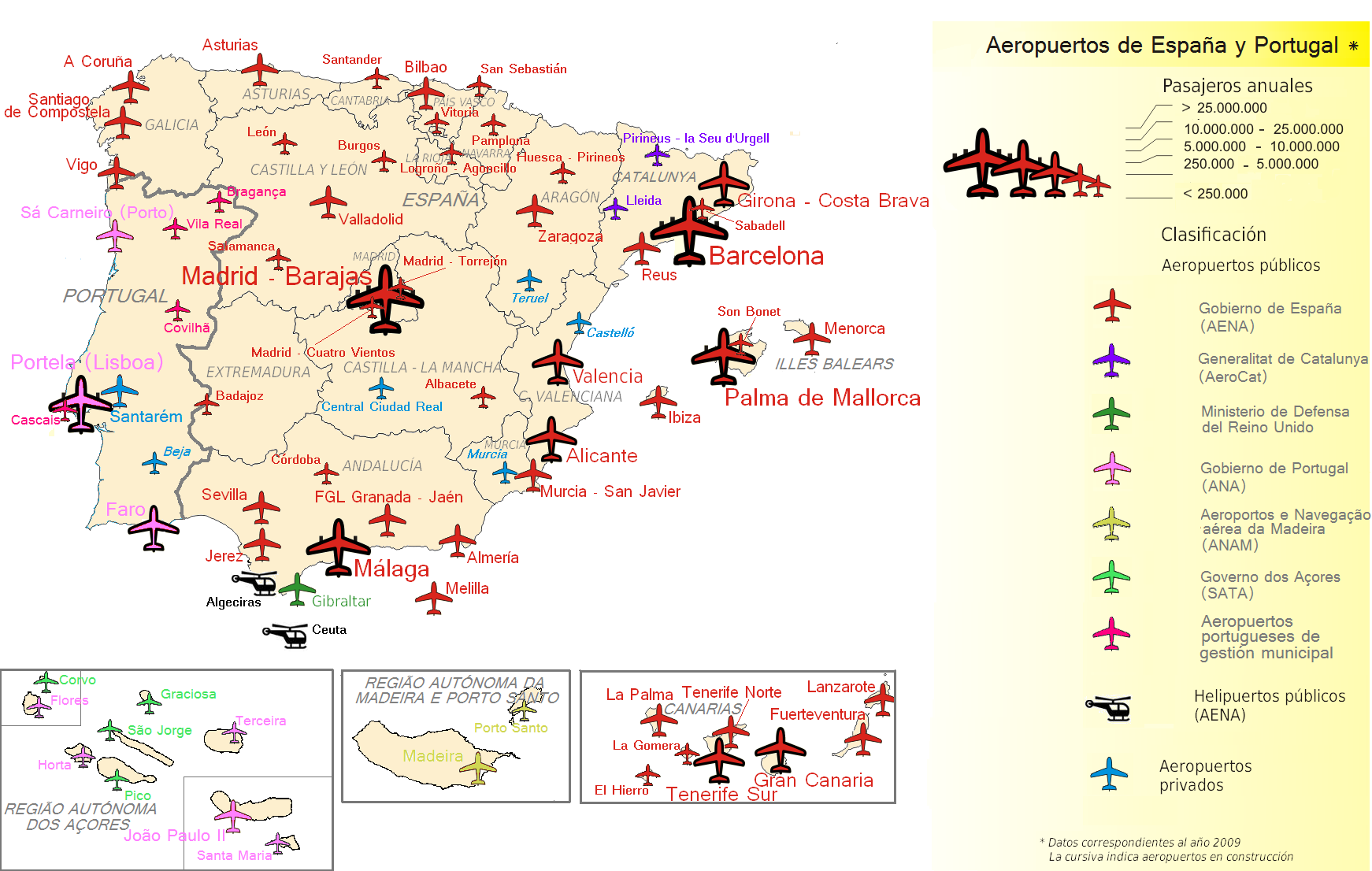 Airports of Spain and Portugal. Different colours show different airport manager companies such as Spanish AENA or Portuguese ANA (both state-owned); also, different sizes reflect passenger traffic figures in 2009.